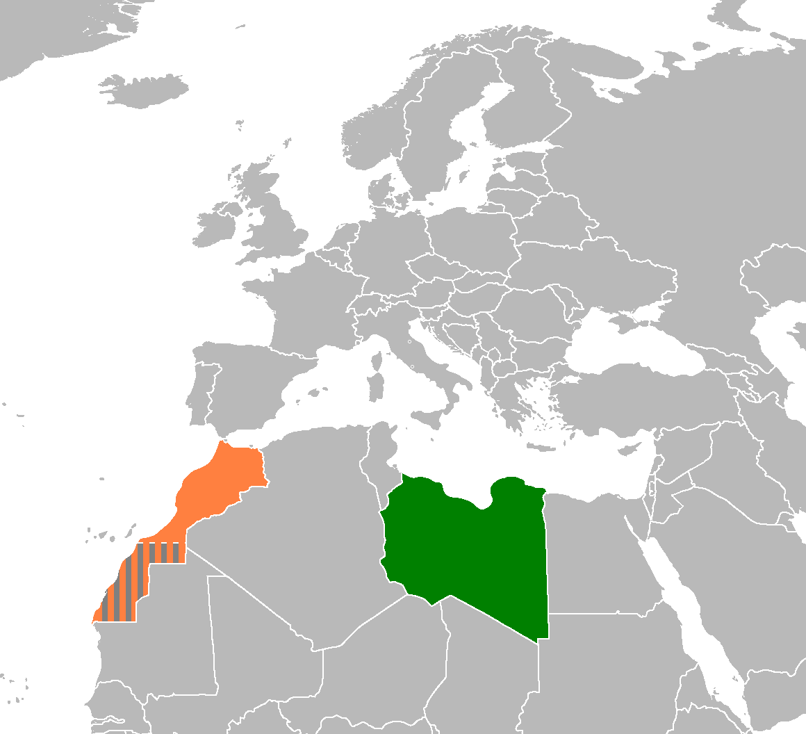 Morocco (including Western Sahara) & Libya locator map